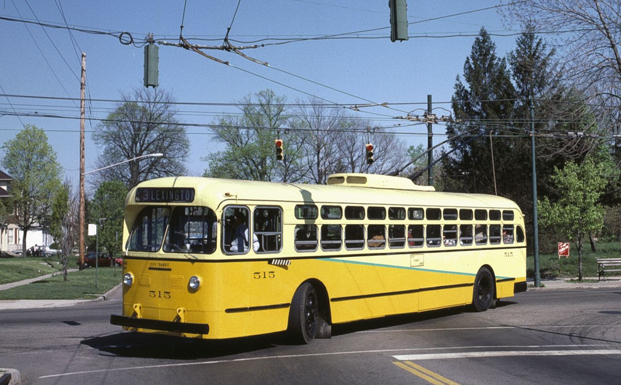 Trolleybus 515 in Dayton, Ohio is a 1949 Marmon-Herrington TC48. It was purchased originally by the City Railway Company, but CR was taken over by the City Transit Company in 1955, and City Transit by the Miami Valley Regional Transit Authority (now GDRTA) in 1972. Number 515 was retired in 1982, but was later restored as a historic vehicle, including repainting into City Transit livery in 1984, and it operated occasional special excursions until spring 1987. Since 1988 it has been on static display at the Carillon Historical Park in Dayton. In this photo, 515 is turning from Broadway onto Grand Avenue, using normally unused short-turn wires for route 3-Lexington (now 2-Lexington), during an excursion for the Cincinnati Transit Historical Association.